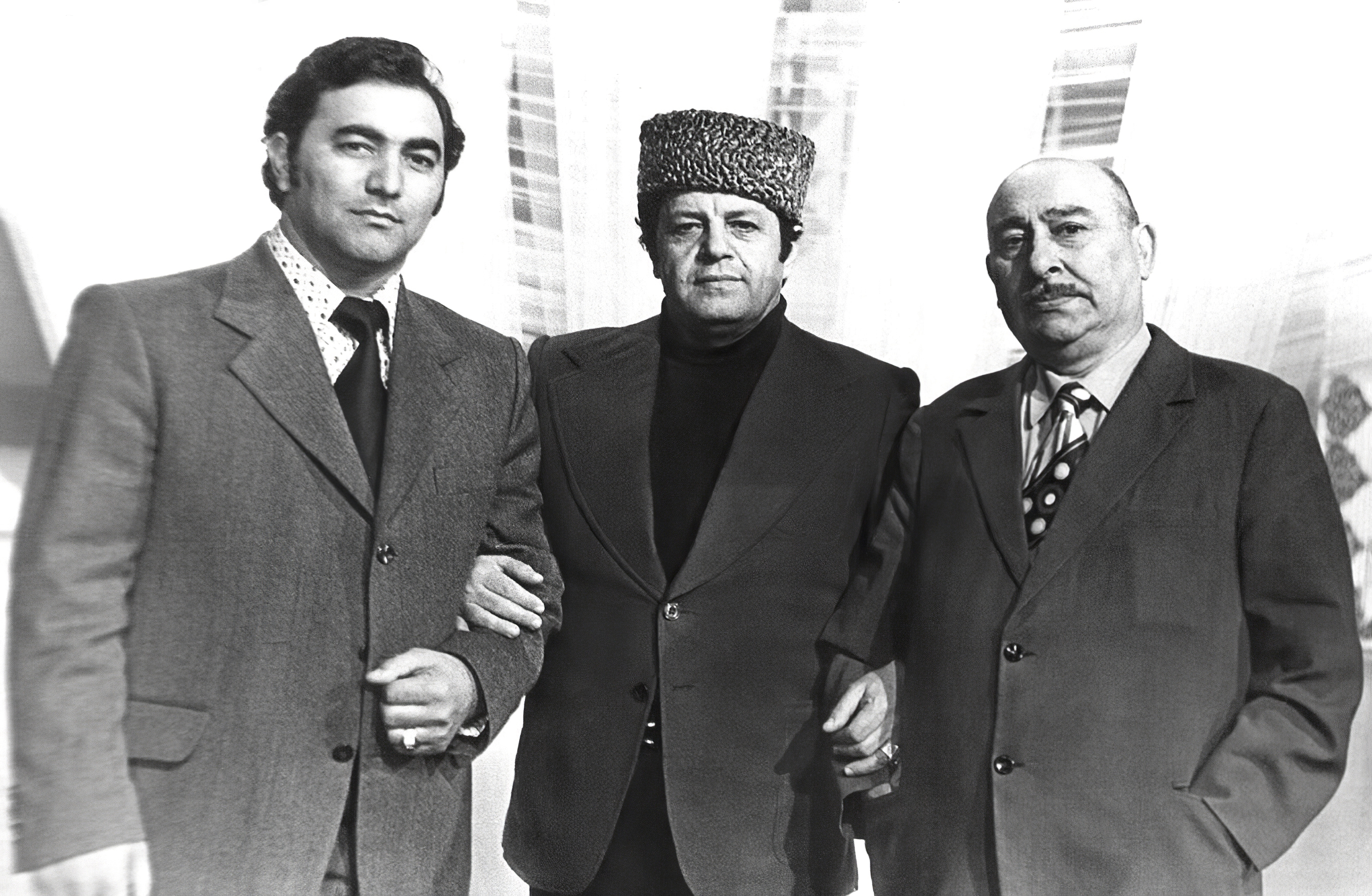 Sakhavet Babayev, Alibaba Mammadov, Bahram Mansurov in 1979